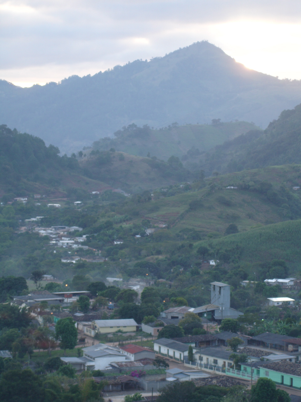 A view of La Unión from above and mountains, in Lempira, Honduras.